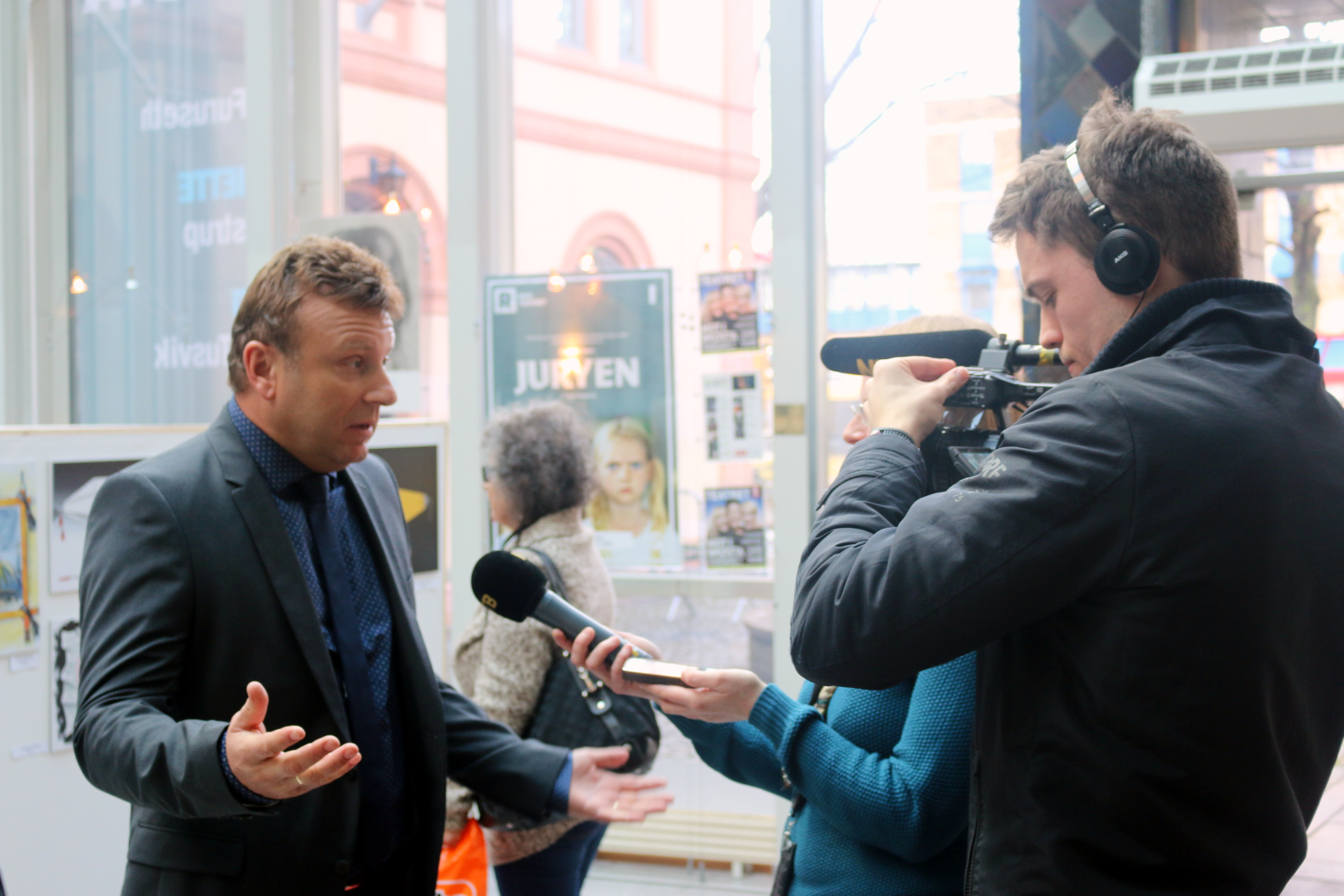 Vebjørn Selbekk - Norwegian Journalist @ "I am Charlie" Cartoon Festival in Drammen, Norway, Feb. 2015 - Photo by Persian Dutch Network